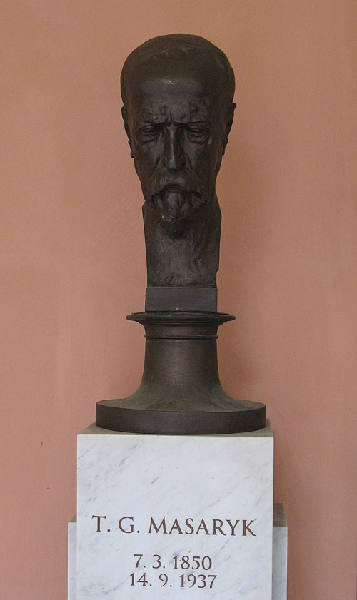 Tomáš Garrigue Masaryk, sculpture at the colonnade of the main building of the University of Vienna